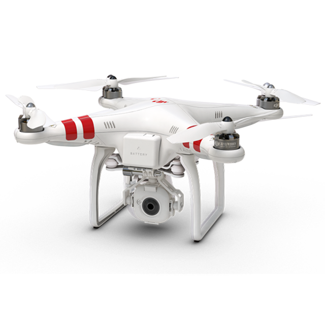 Phantom FC40 quadcopter